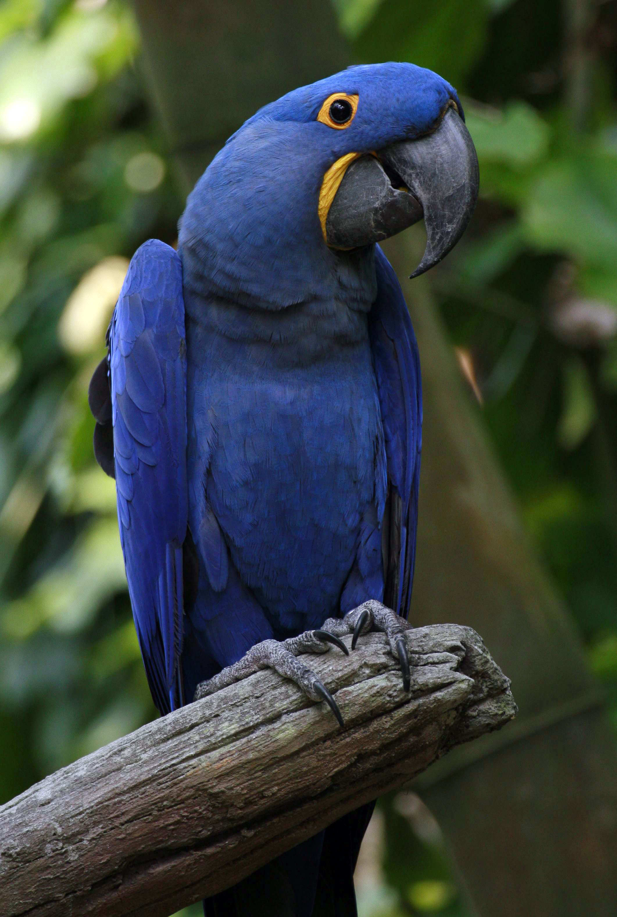 Hyacinth Macaw also known as Hyacinthine Macaw at Disney's Animal Kingdom Park